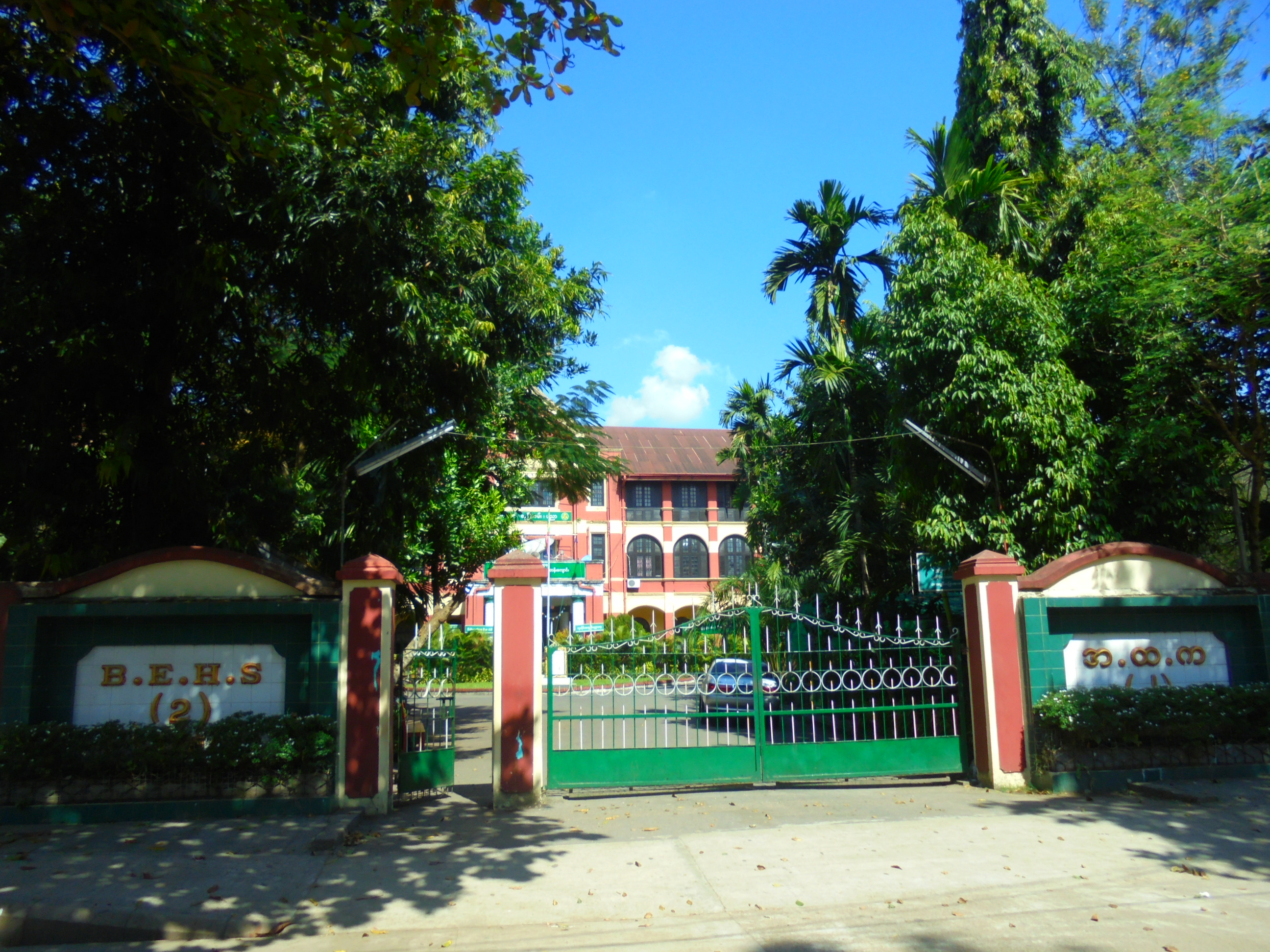 BEHS 2 Latha (St. John's Convent School) in Yangon (Rangoon), Myanmar (Burma)